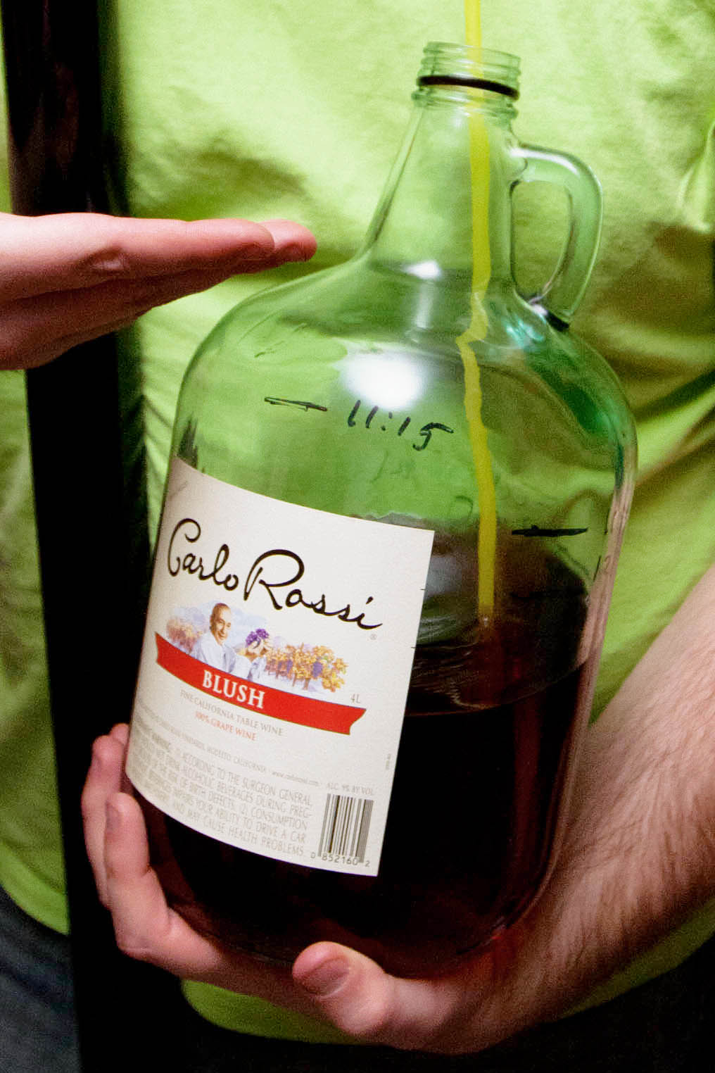 Opened bottle of Carlo Rossi jug wine, half-consumed with a straw.